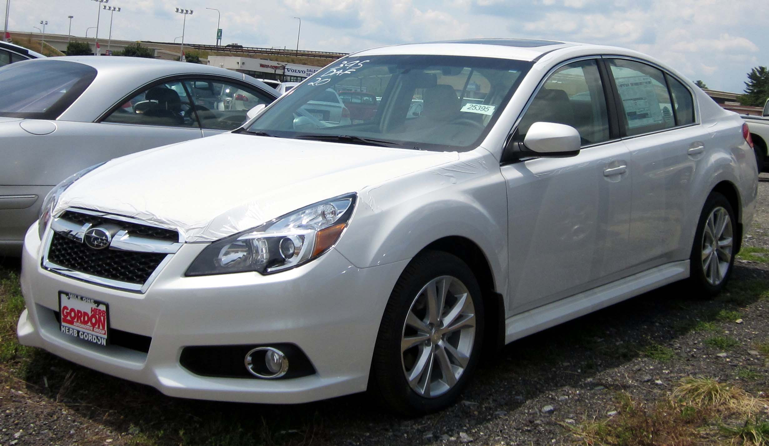 2013-2014 Subaru Legacy photographed in Silver Spring, Maryland, USA.